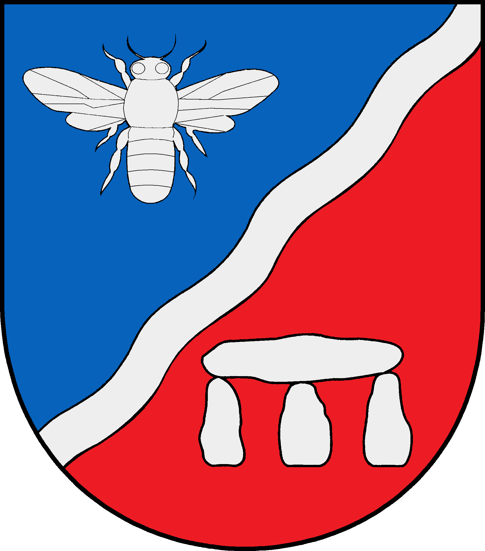 Coat of arms of the municipality Melsdorf in Schleswig-Holstein, Germany.